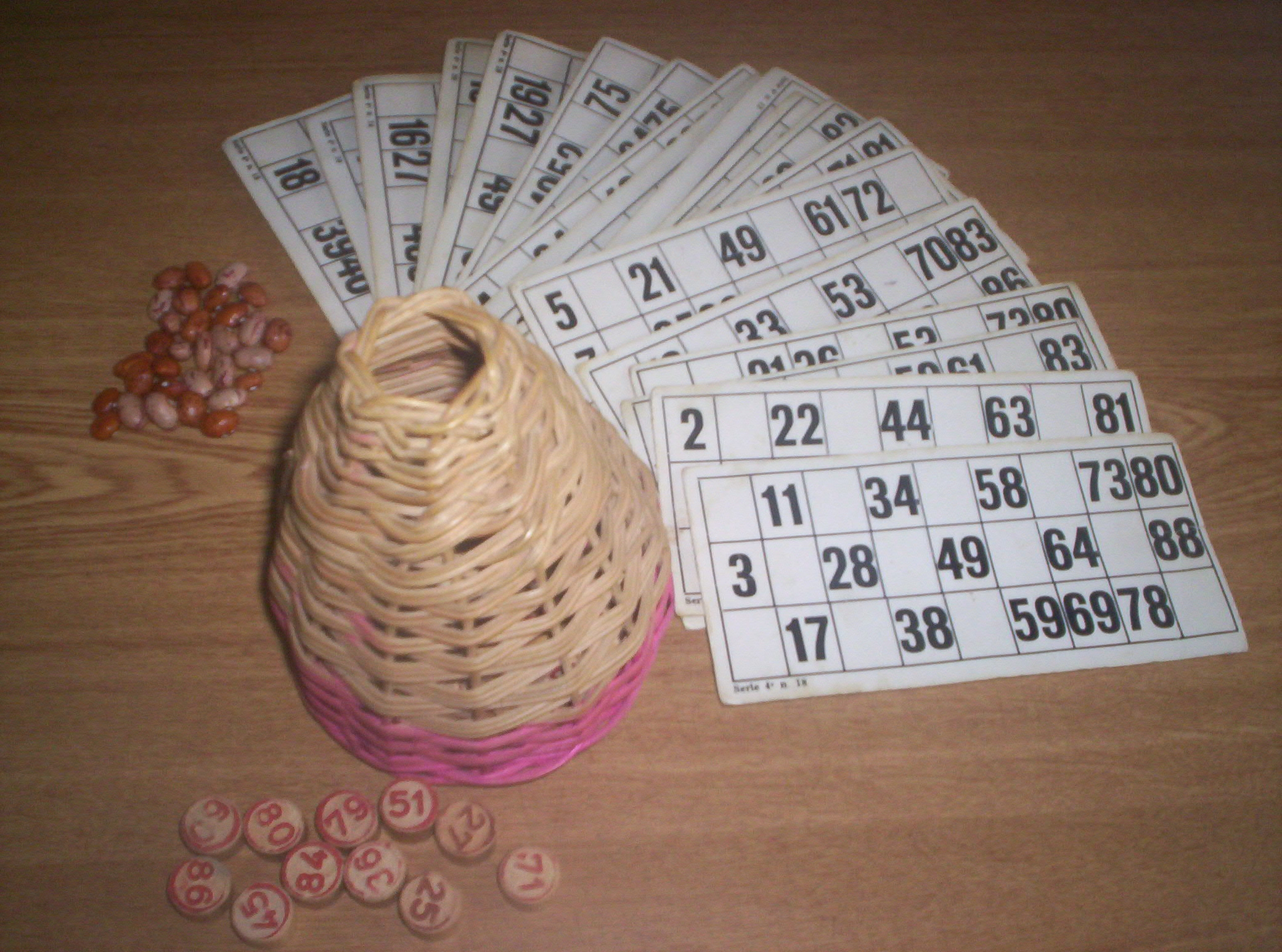 Created on 27 December 2005